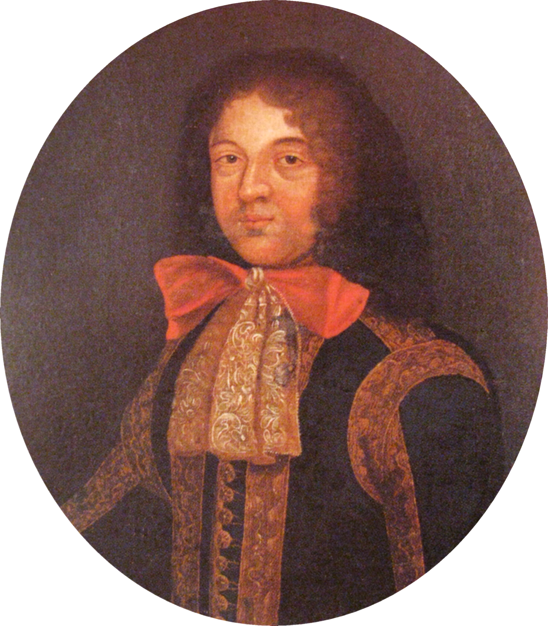 Krzysztof Franciszek Sapieha